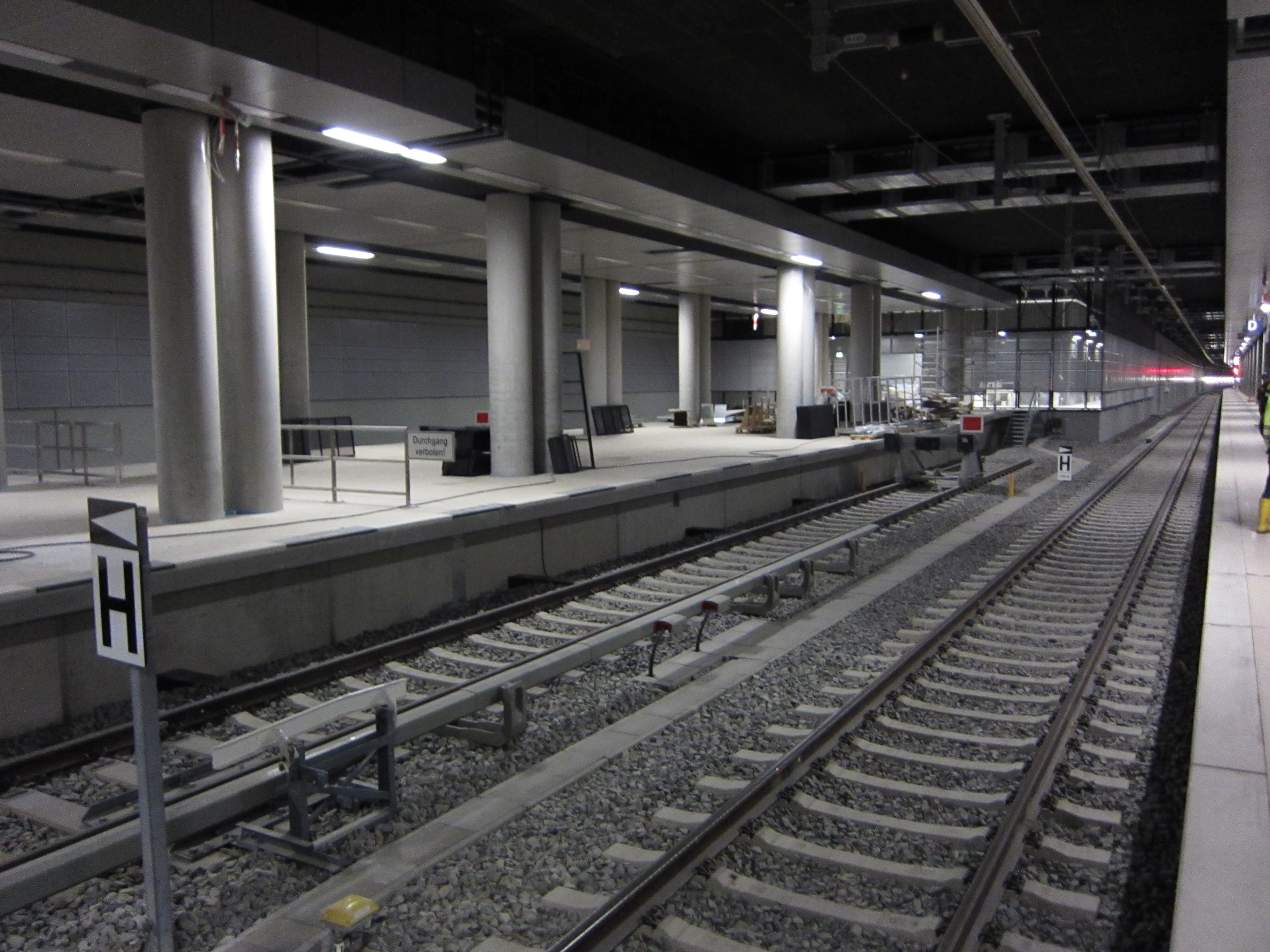 Airport Berlin Brandenburg station with tracks 4 to 6 and the platform of S-Bahn Berlin. Behind the platform the technical control center is located. Station under construction.